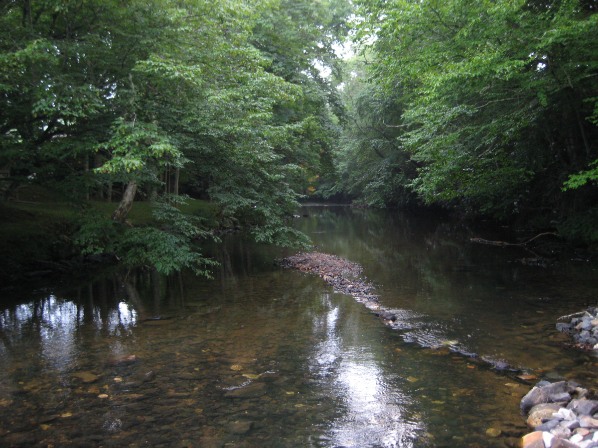 stream in Linville, North Carolina